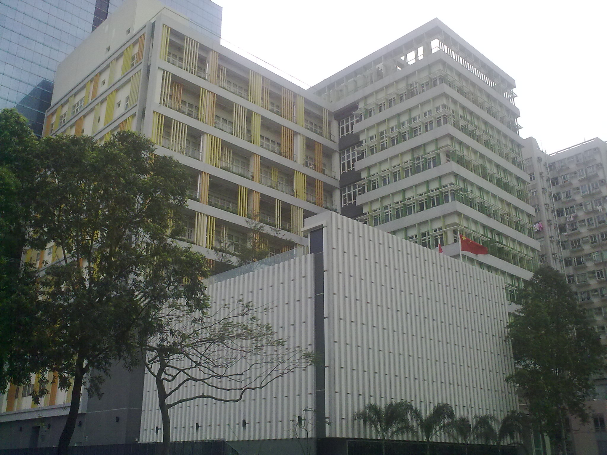 Kowloon City Government Offices (Mar 2014)